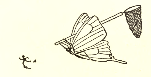 Cartoon of a butterfly catching a human.